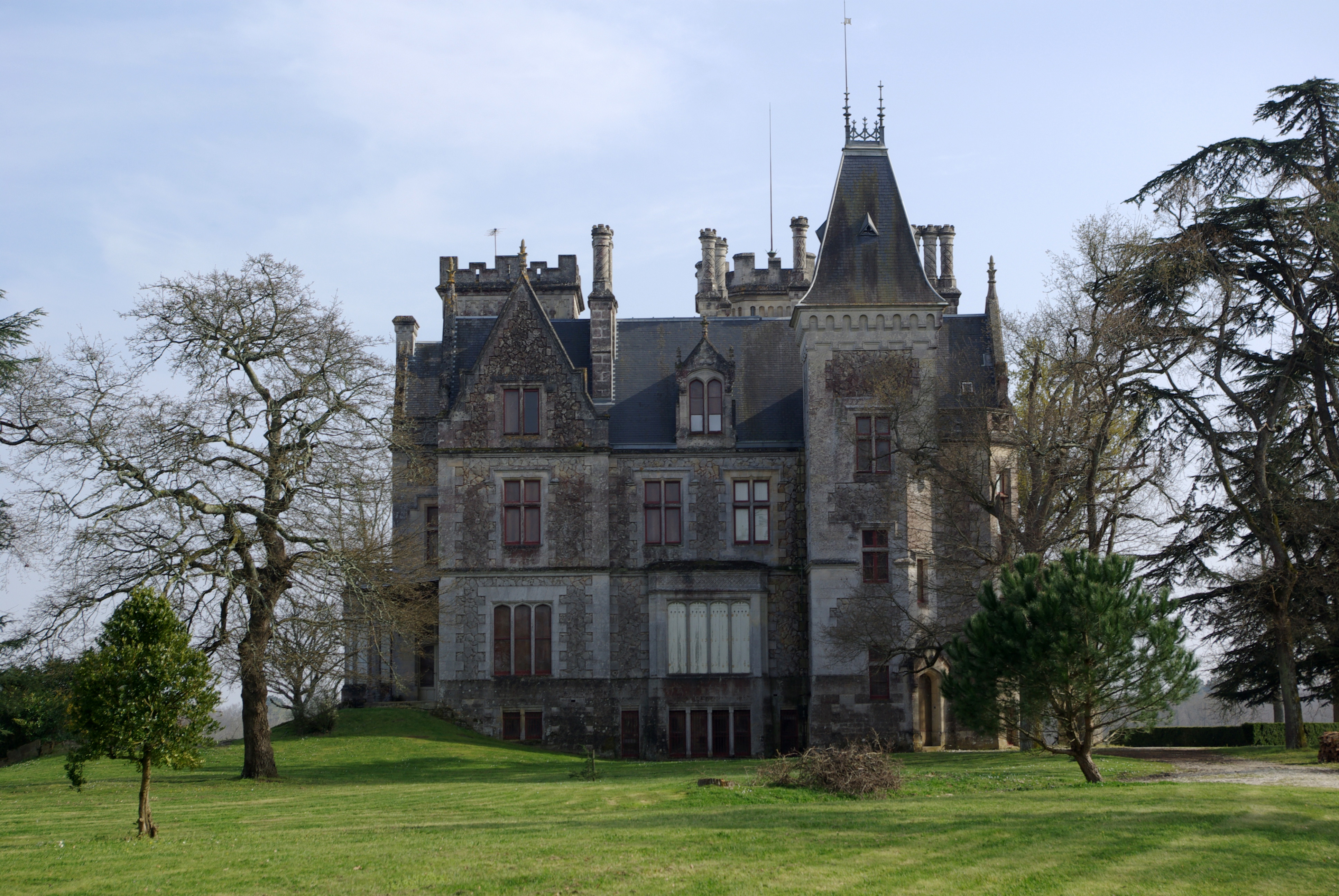 Château La Chesnaye-Sainte-Gemme in Cussac-Fort-Médoc (Gironde, France).